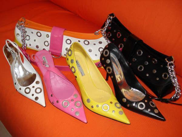 Photograph taken by fethroesforia.